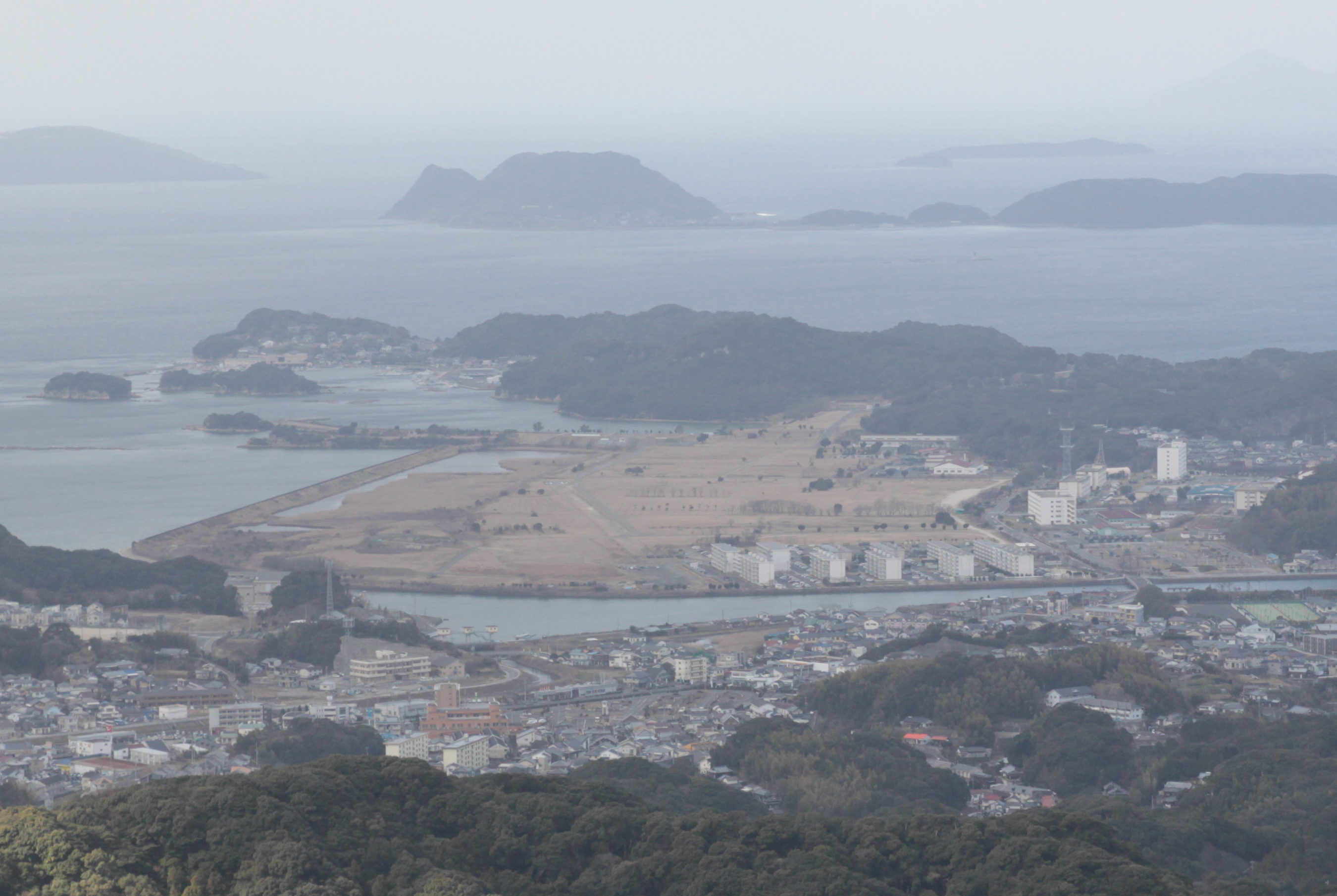 JGSDF Camp Aiura from Yumihari-dake